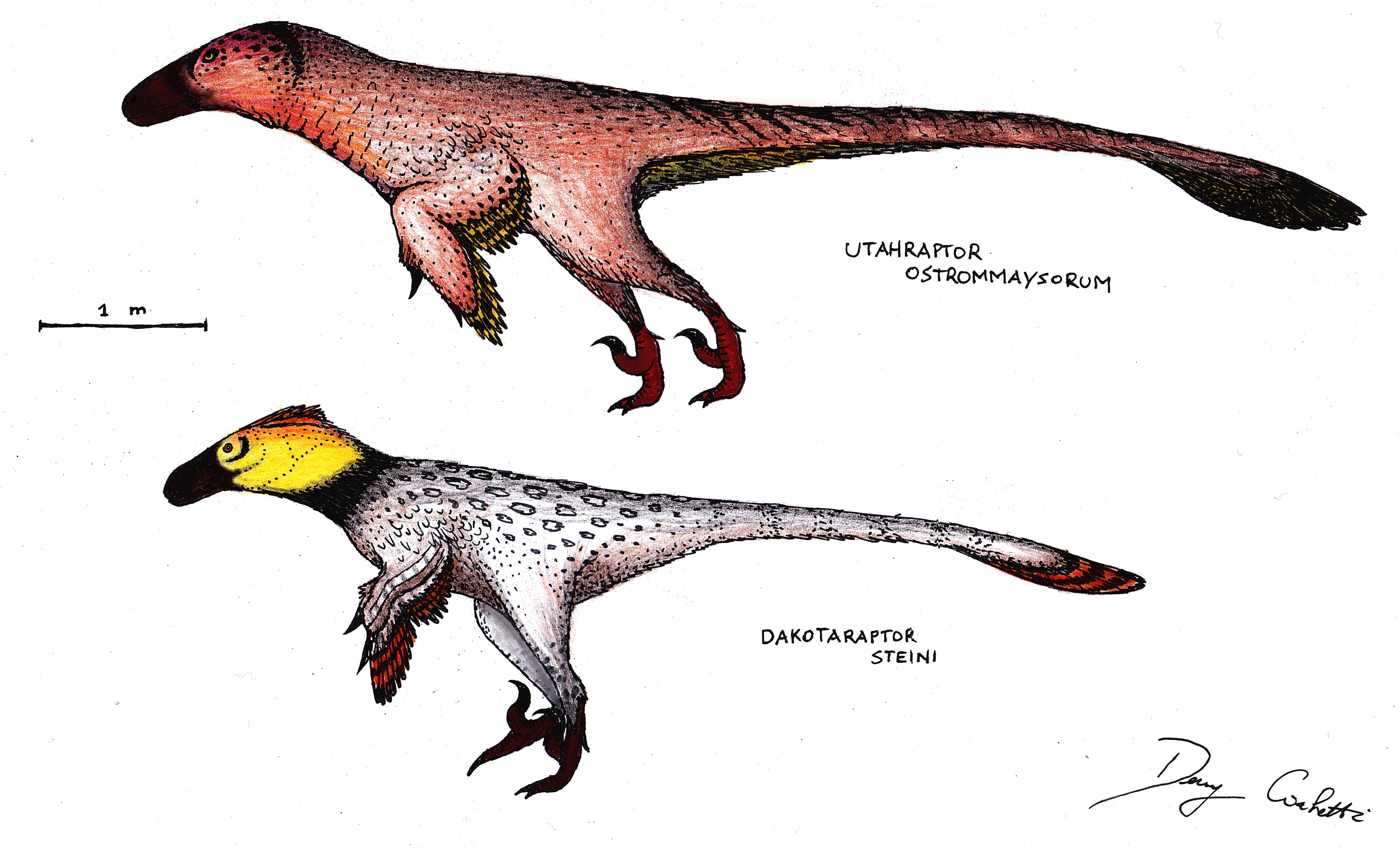 Life comparison between Dakotaraptor (bottom) and Utahraptor (top)